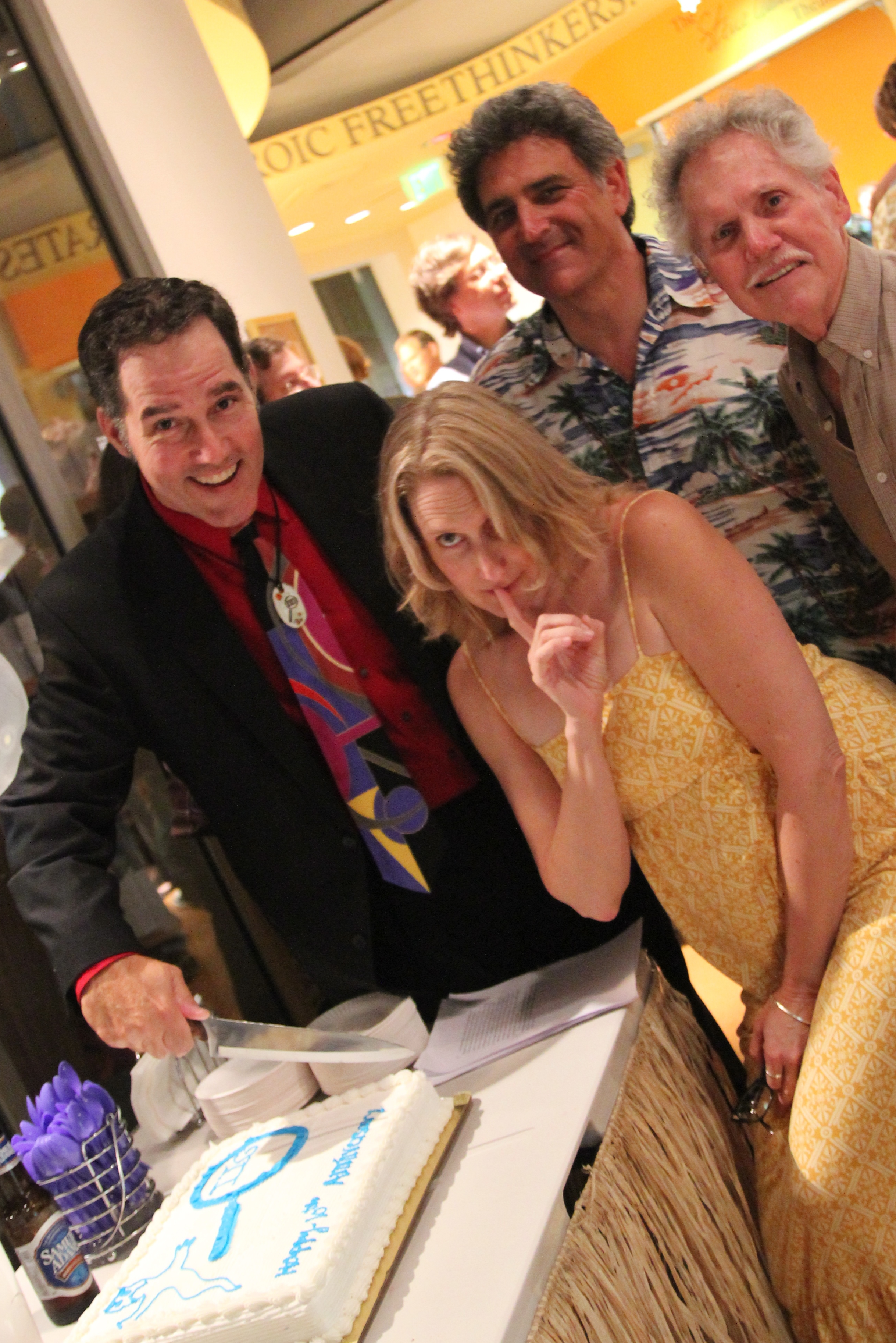 Four founding members of the IIG at the 10th Anniversary Gala. James Underdown, Sherri Andrews, Brian Hart and Milton Timmons.